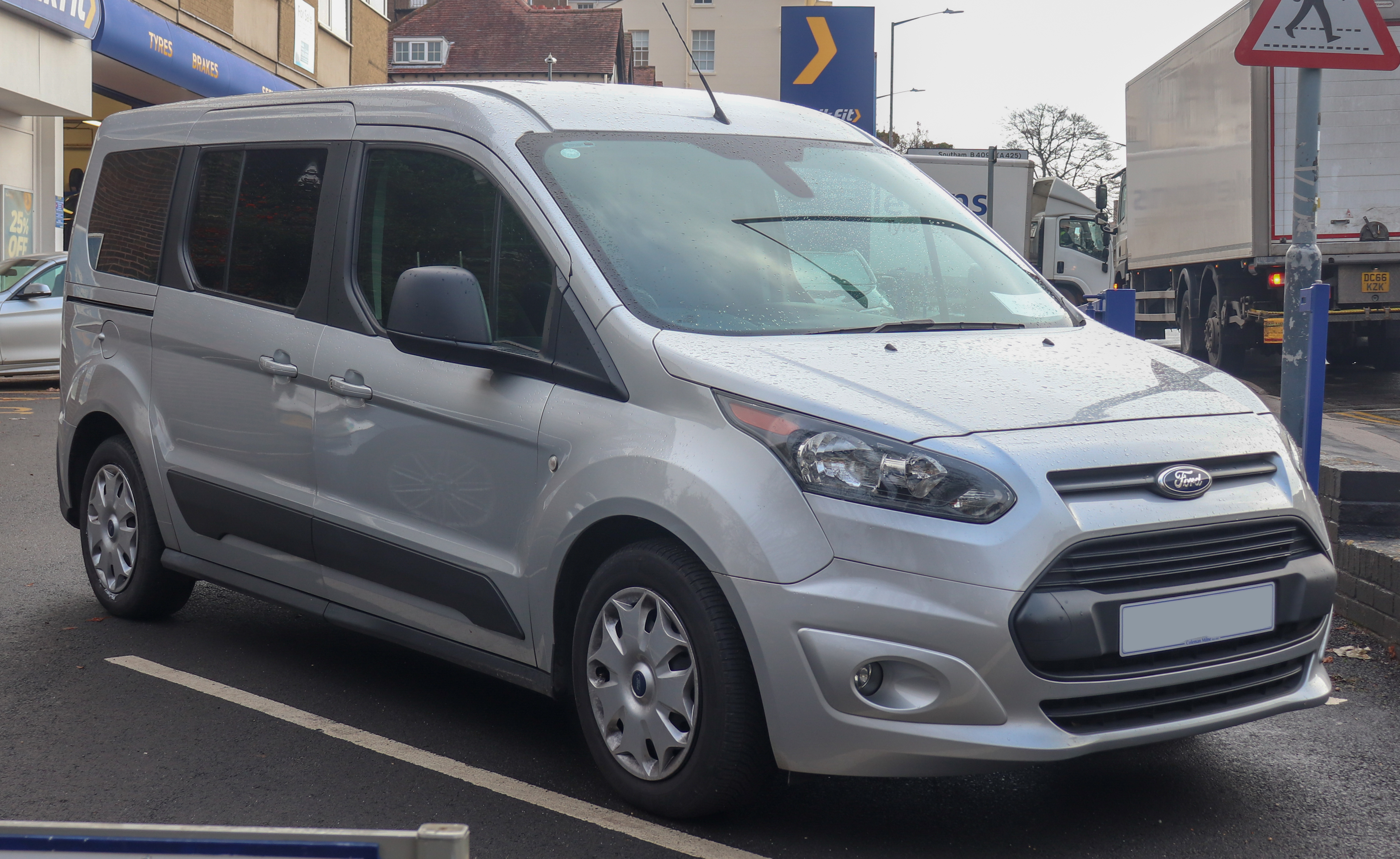 2015 Ford Grand Tourneo Connect Zetec 1.5 Front Taken in Leamington Spa